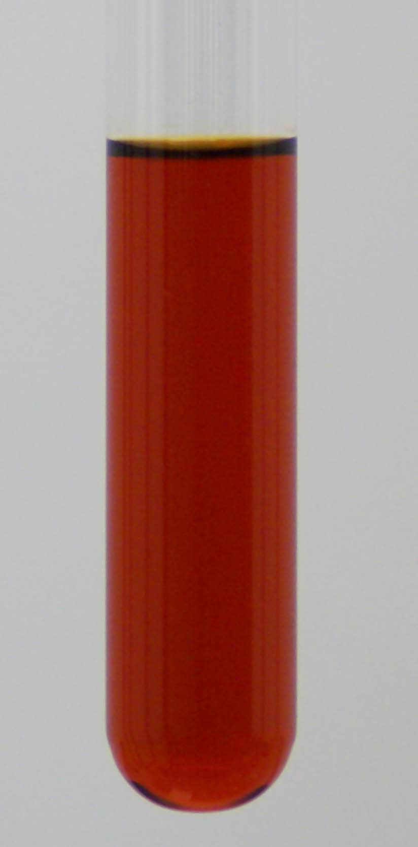 Lycopene, the red pigment that colors tomatoes, here dissolved in dichloromethane